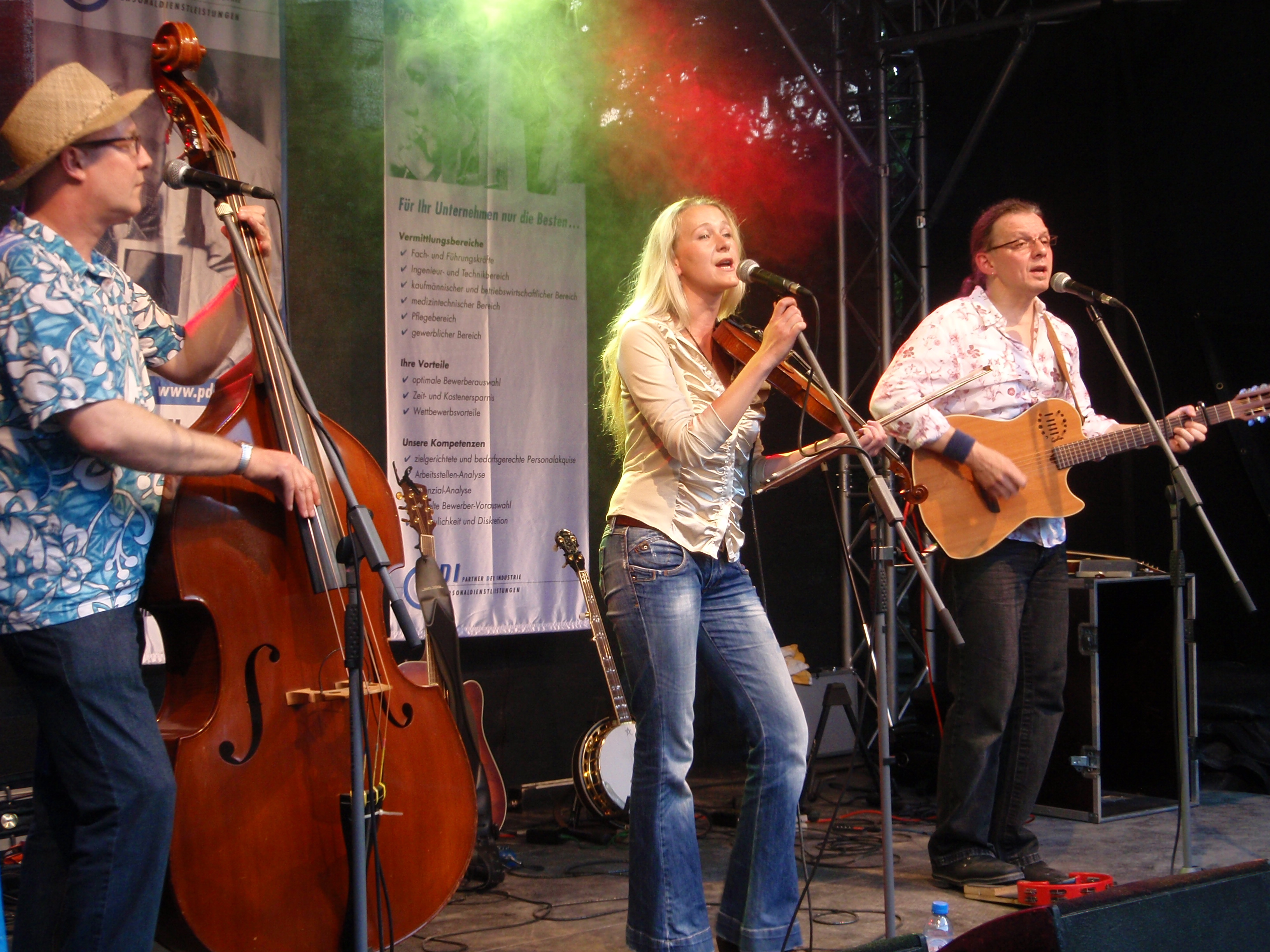 "Indijana & The Jones" at the "Folk im Schlosshof" festival 2009 in Bonfeld / Germany